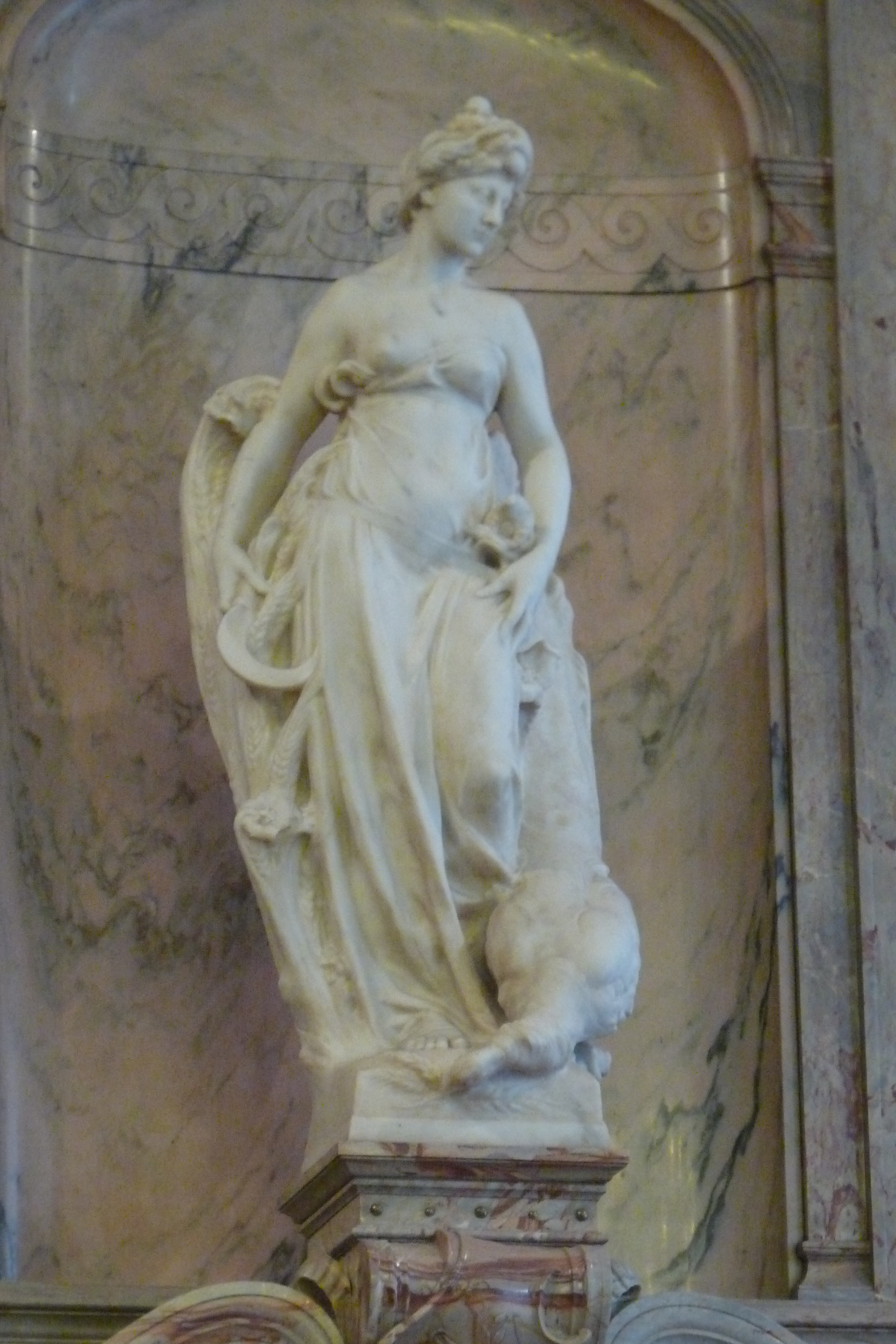 Ceres statue by Egide Rombaux